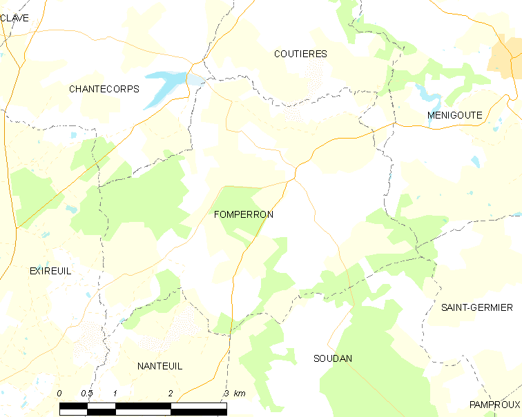 Map of French municipality Fomperron